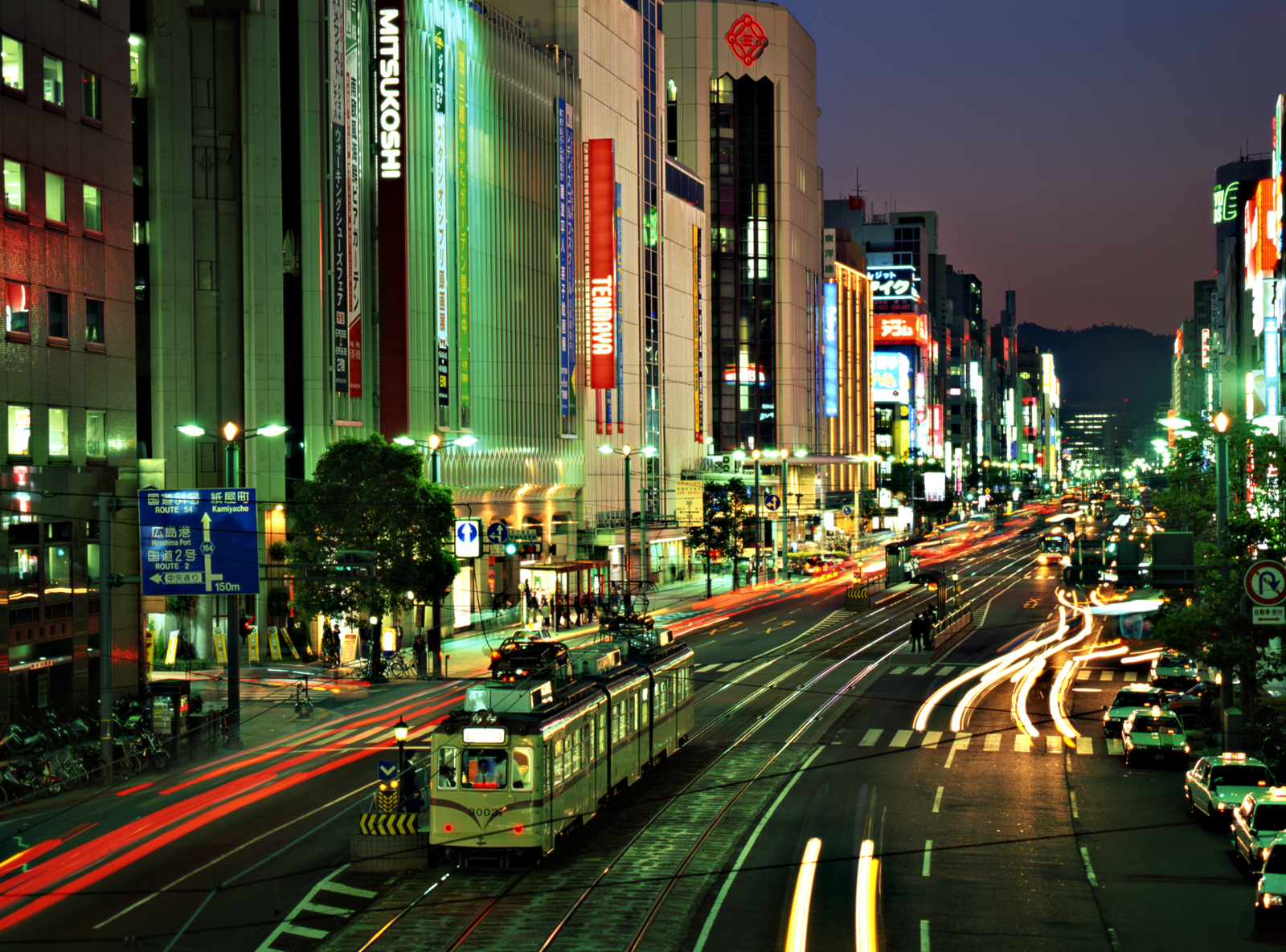 Ebisu-chō Station.